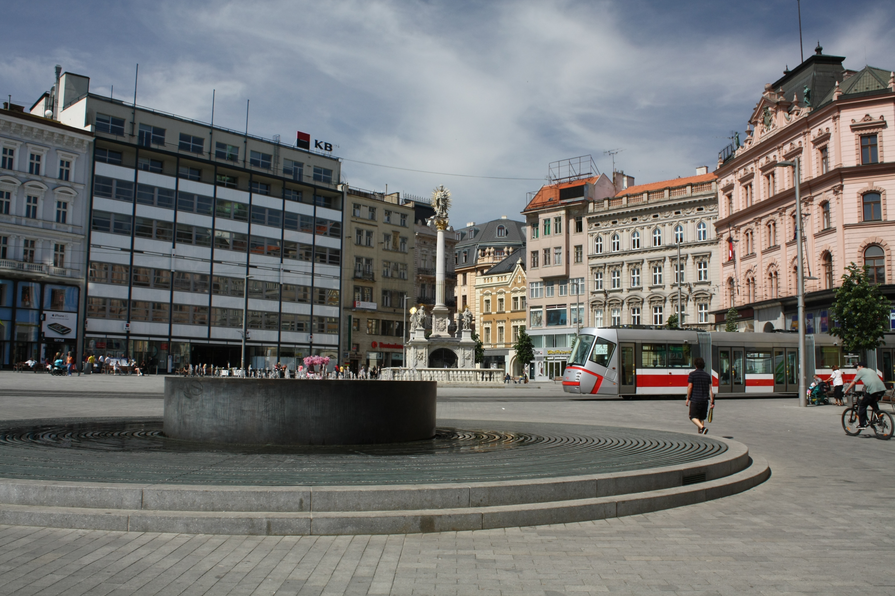 Freedom Square in Brno, Czech Republic - fountain and plague pillar